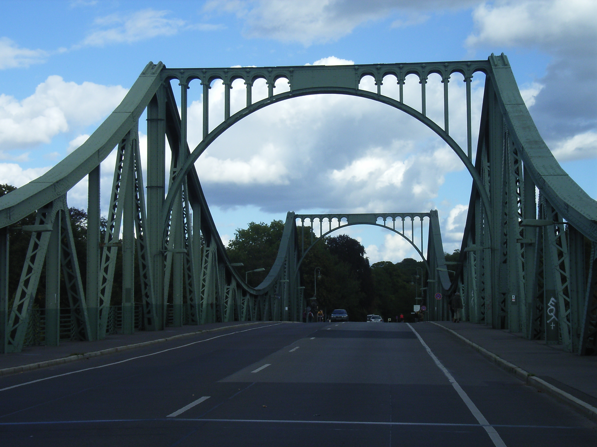 Glienicke Bridge across river Havel between Potsdam (Brandenburg) and Berlin